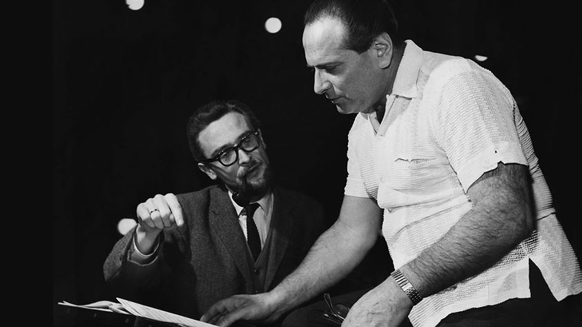 Composer Rudi Martinus van Dijk works on the score of his Epigrams for Orchestra with the conductor of the Toronto Symphony Orchestra Walter Susskind at Massey Hall in 1962.